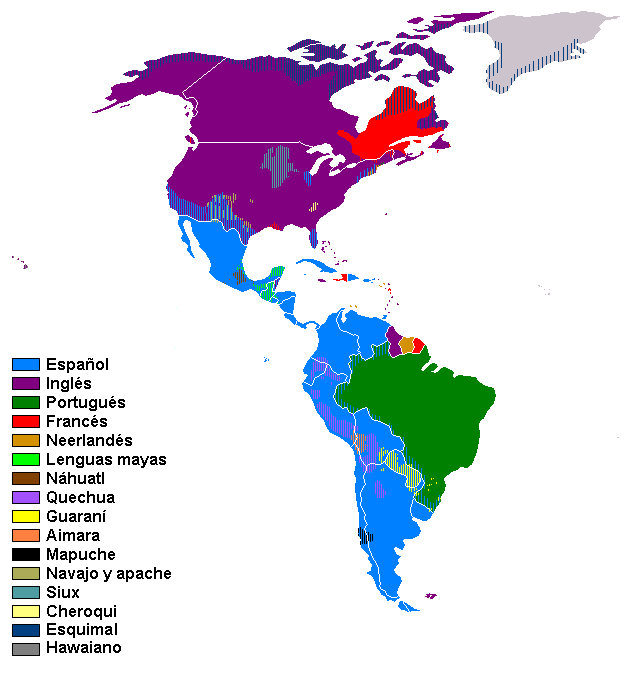 Languages of America